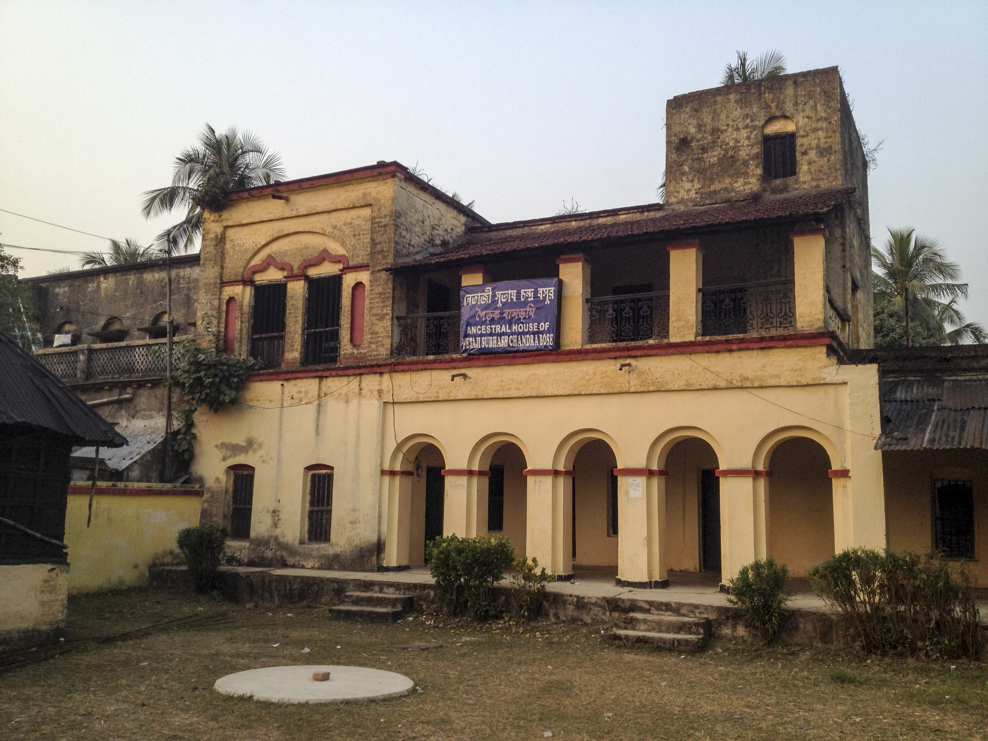 This is the ancestral house of Subhas Chandra Bose is at Shubashgram (Kodalia) near Kolkata.